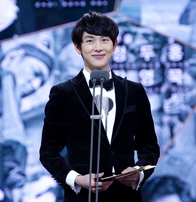 Yim Si-wan at Blue Dragon Film Awards, 17 December 2014